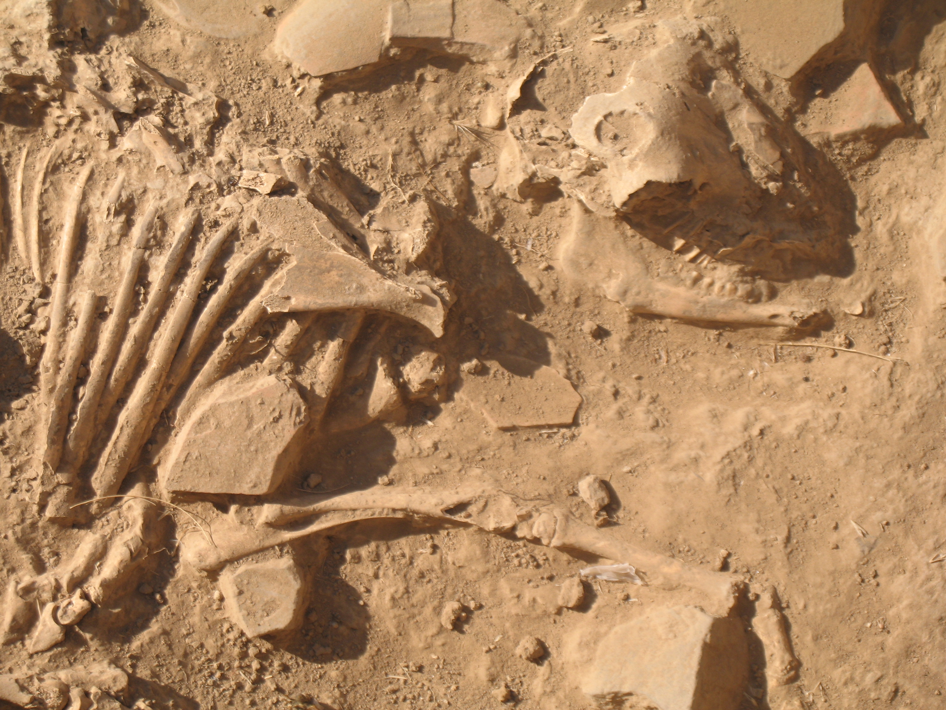 Archaeological excavations in the ancient Olbia. In the dugout found the skeleton of a lamb that was ritually killed. Skeleton investigated arheozoologist PhD. Yevheniia Yanish